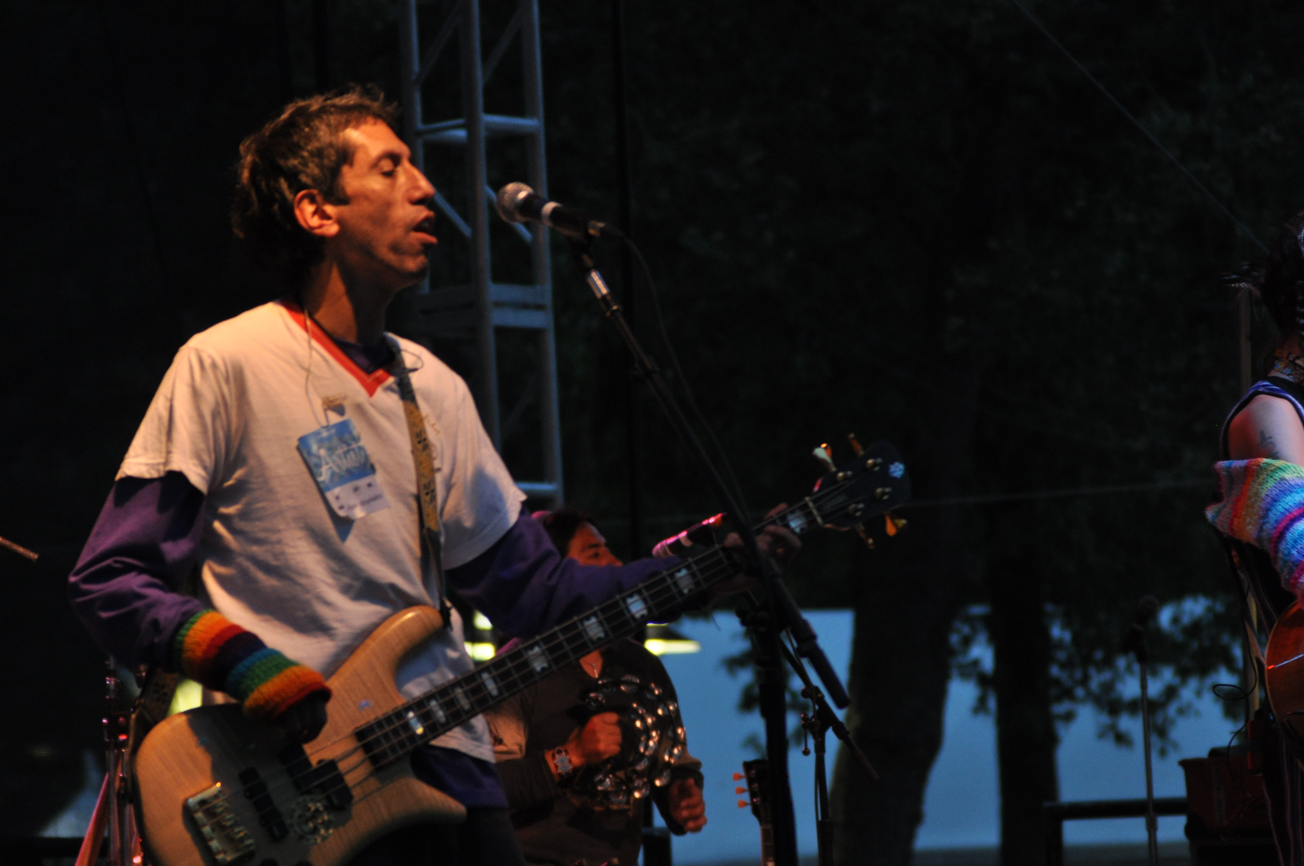 Aterciopelados play at Bumbershoot, Seattle Center, Seattle, Washington.